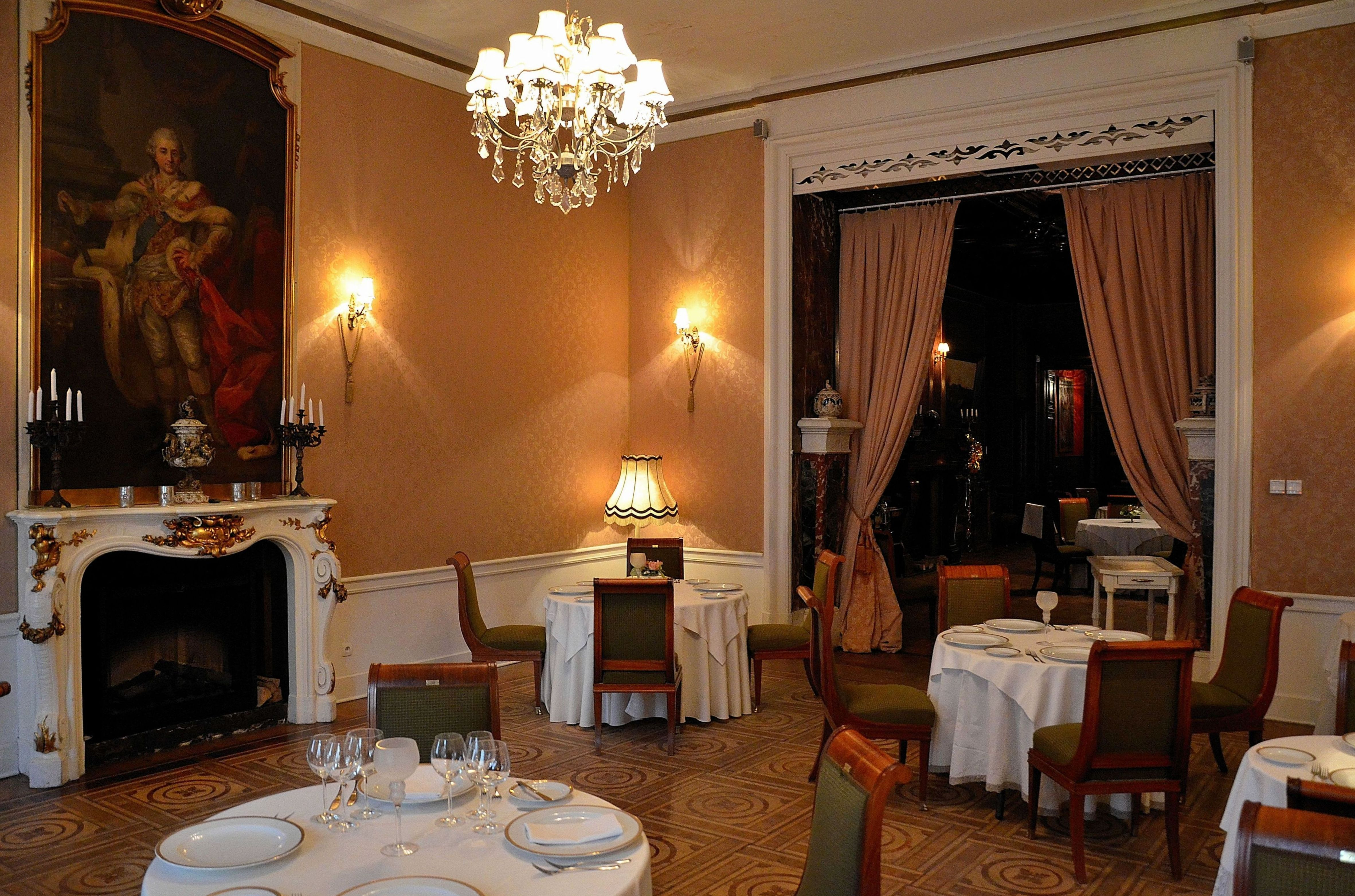 Pod Gigantami Restaurant in Warsaw